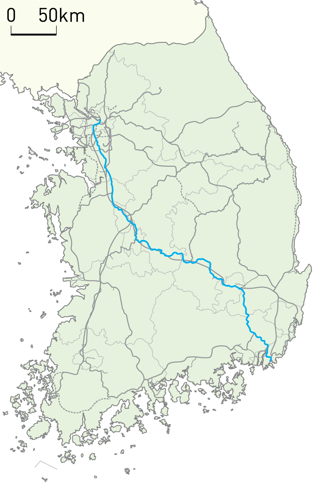 Korail Gyeongbu Line route map